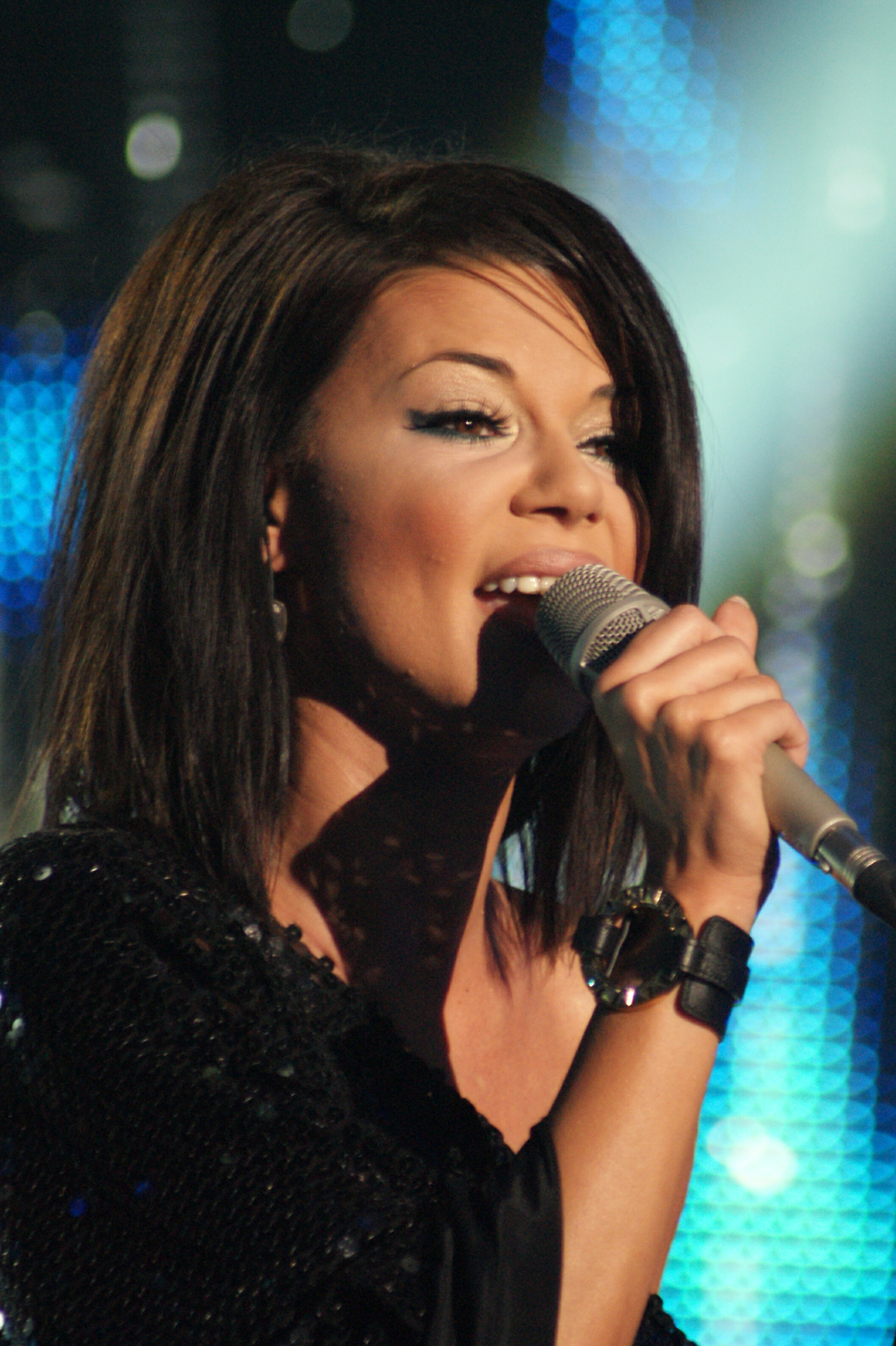 Edyta Górniak